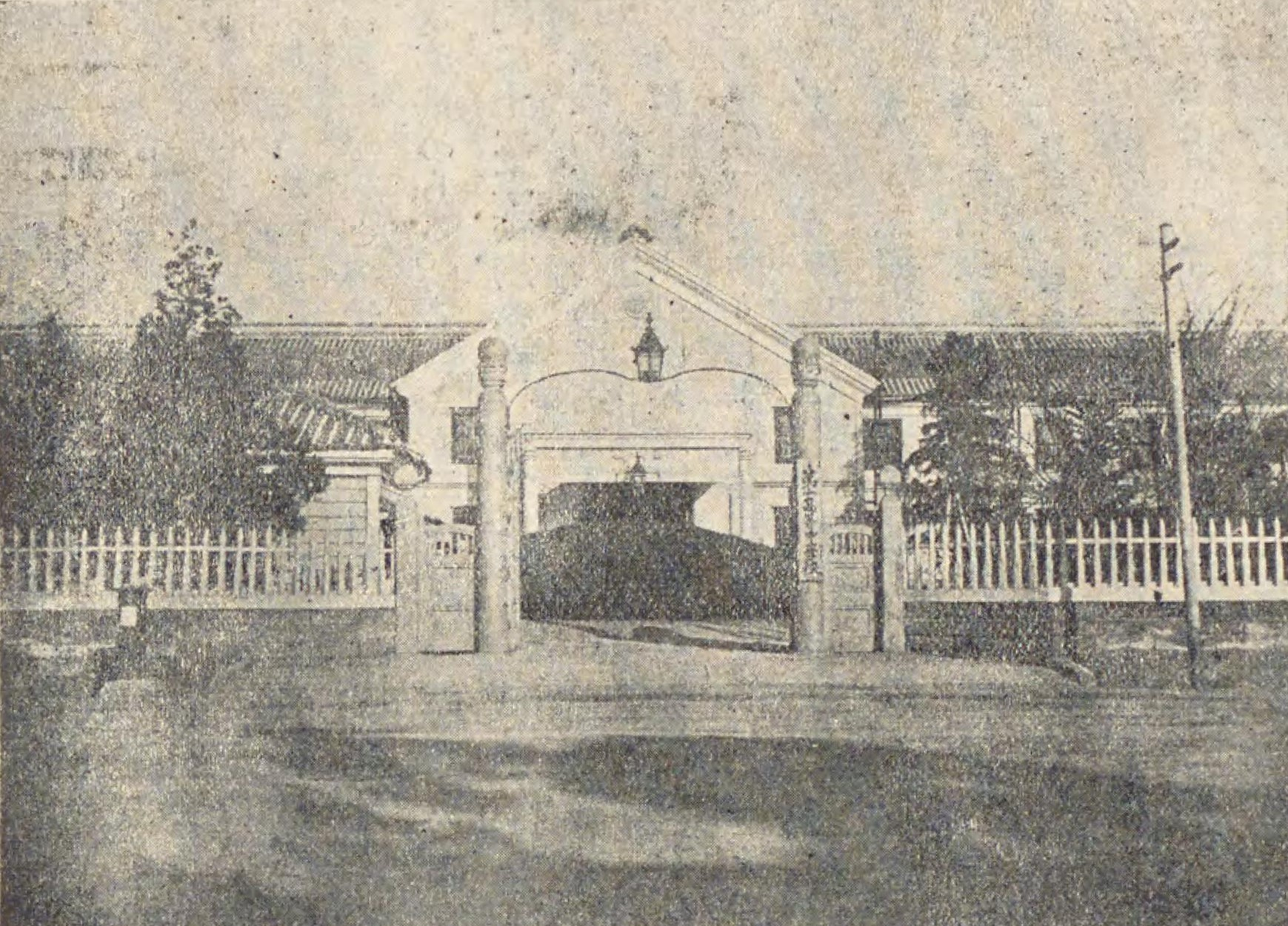 First Higher School at Hitotsubashi.